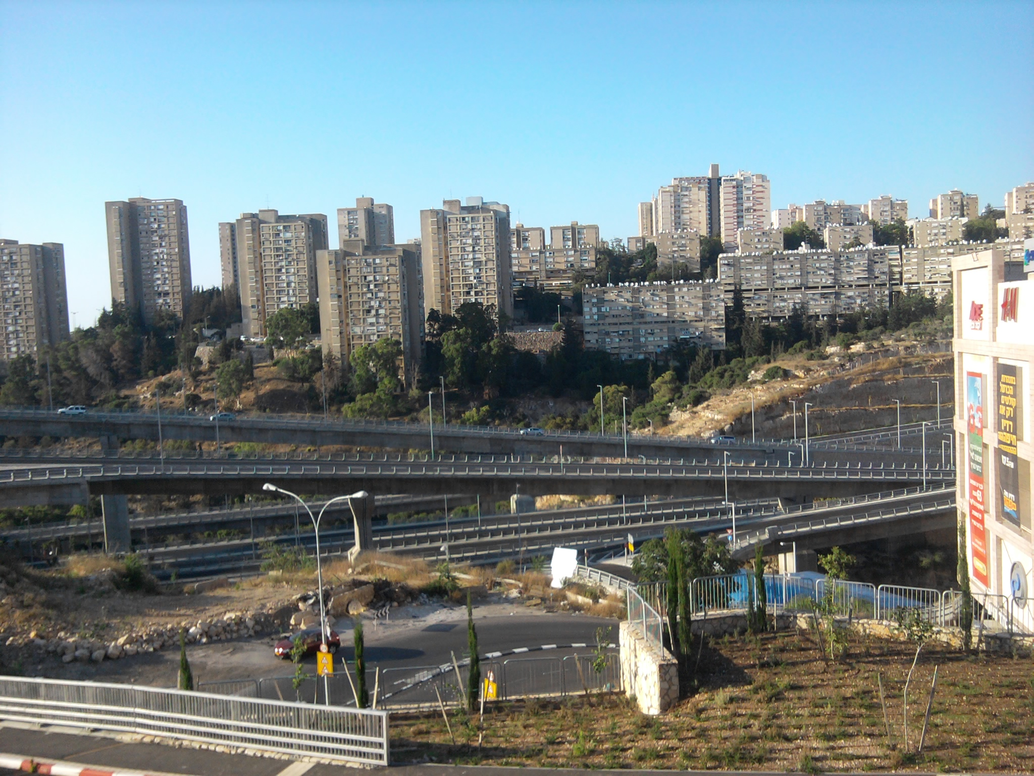 1960's-70's highrise housing atop the hill of Navé Sha'anan, looking down to the Wadi Rushmiya natural gorge recently overwhelmed by the Carmel Tunnel central exit ramps serving the "Grand Kanyon" shopping mall that can be seen on the right.